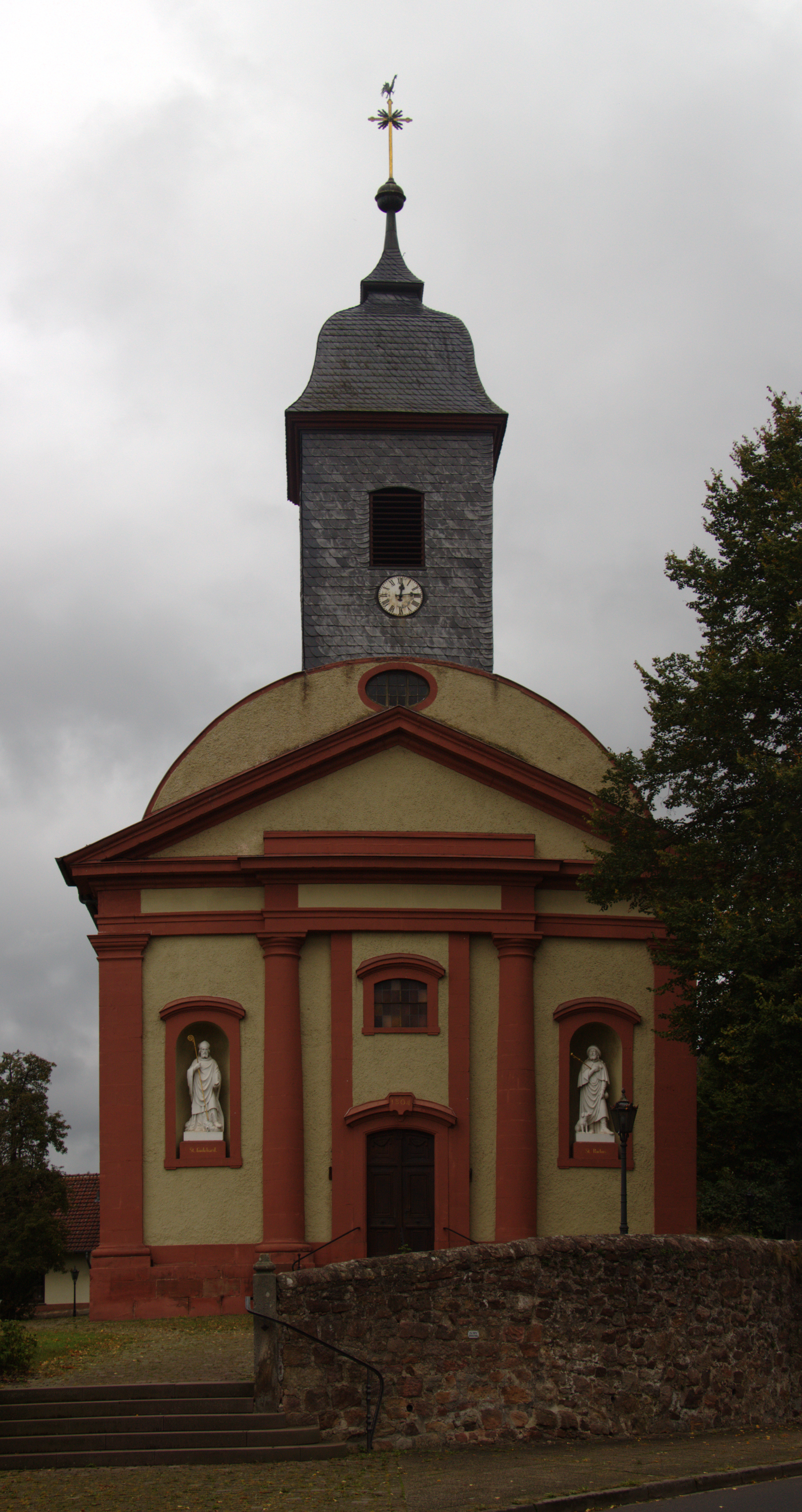 Catholic Church (St. Godehard) in Kaemmerzell Kaemmerzeller Strasse, Fulda, Hesse, Germany